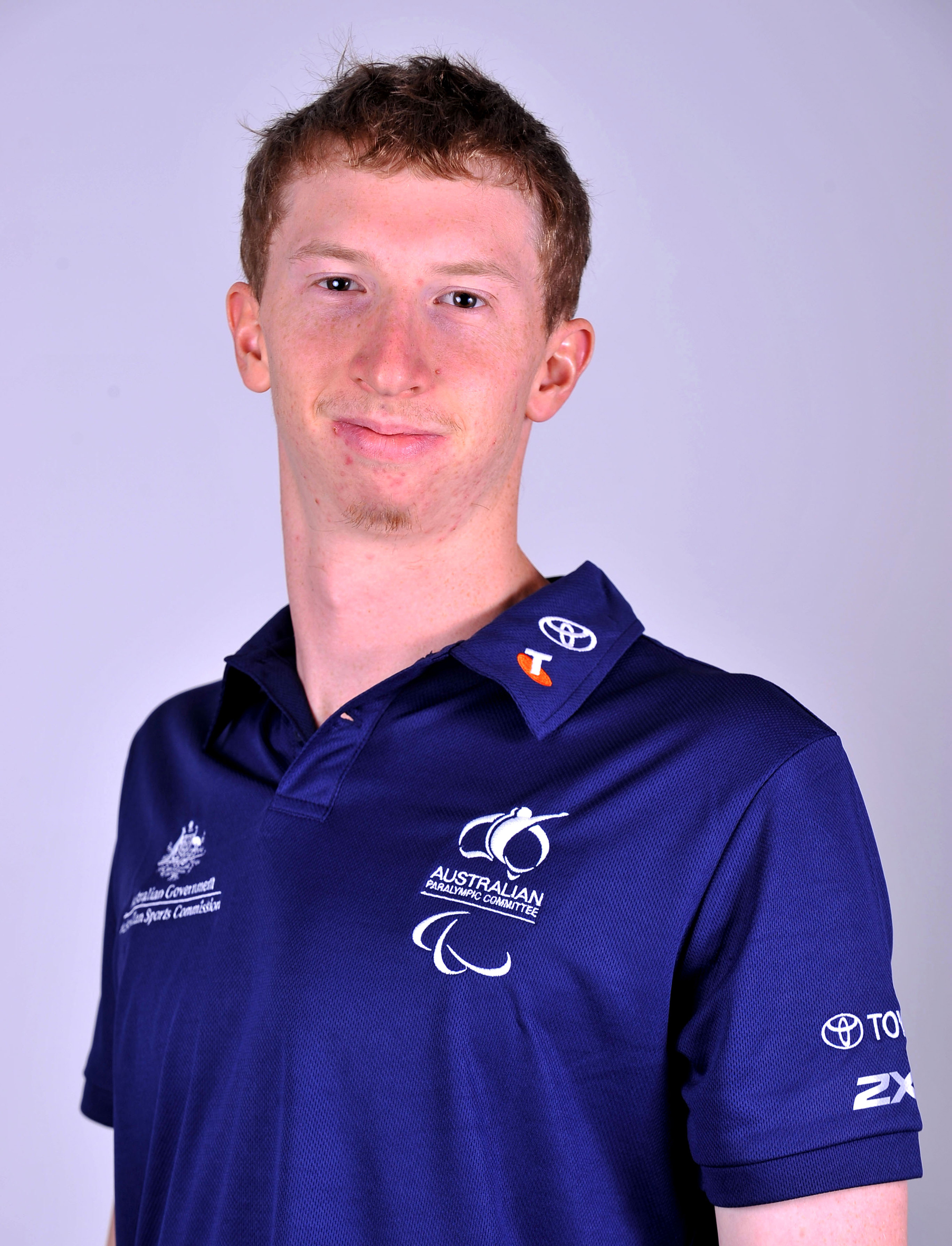 Portrait of Australian swimmer Richard Eliason, 2012 Australian Paralympic (shadow) Team athlete